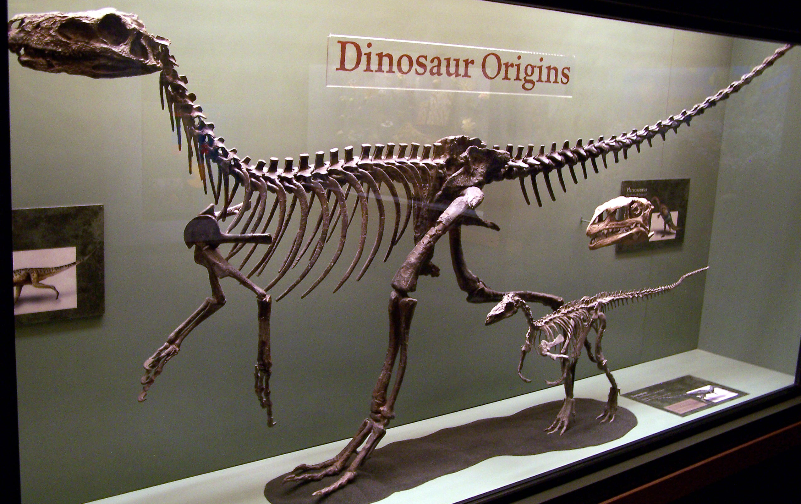 Herrerasaurus and Eoraptor skeletons, plus a Plateosaurus skull, North American Museum of Ancient Life.